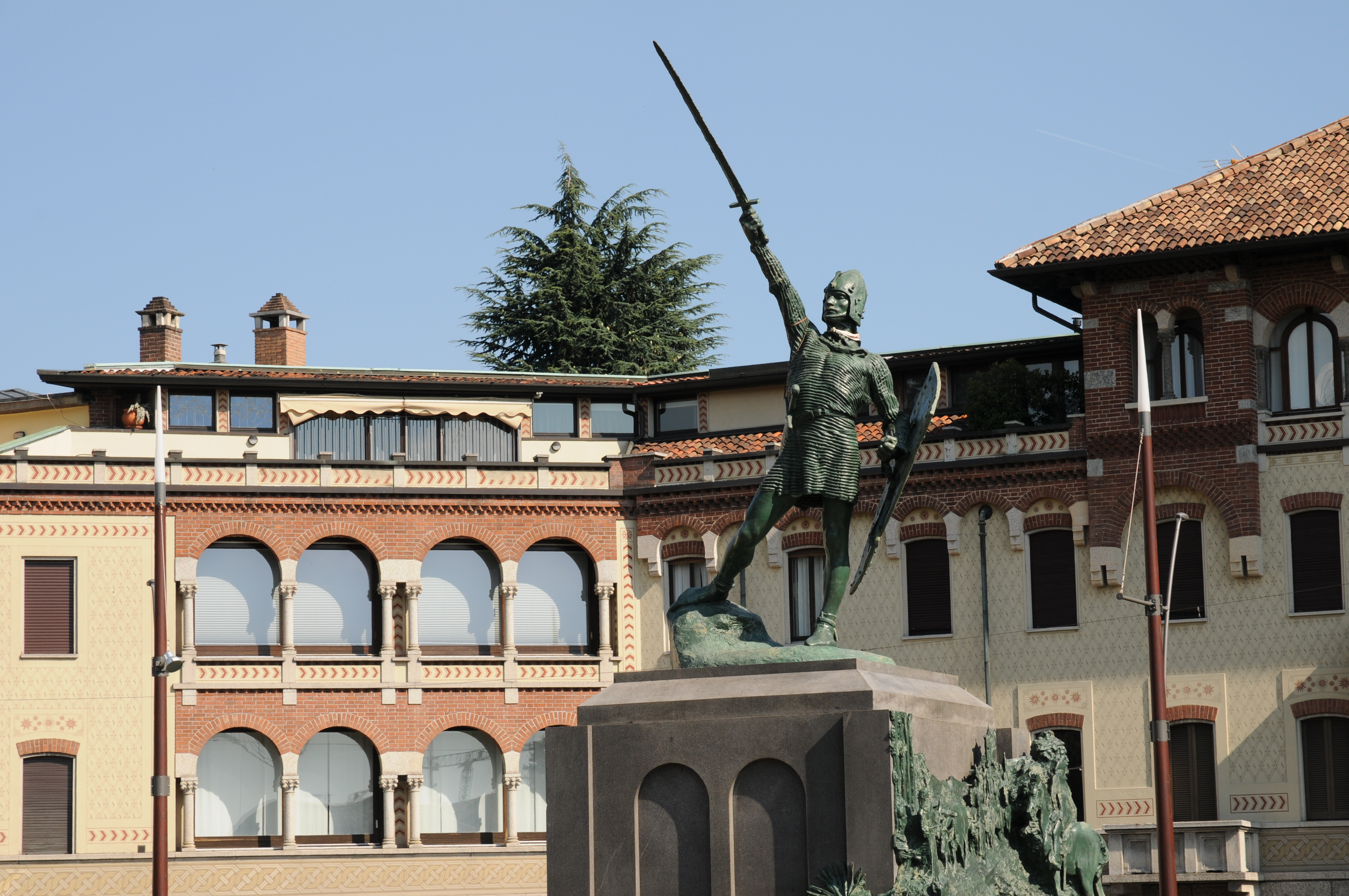 Monument to Alberto da Giussano in Legnano (Italy)